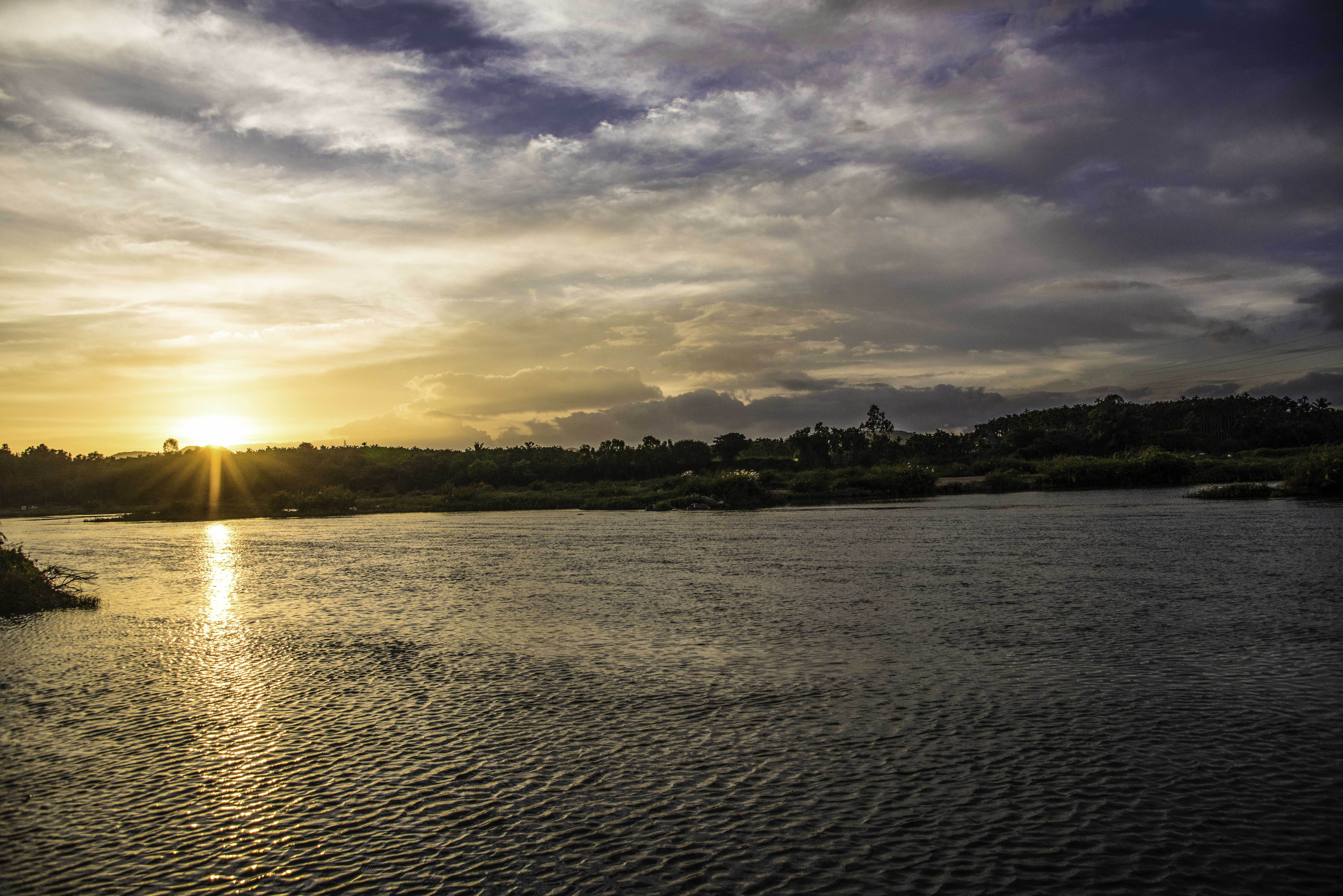 Sunset at kudli Sangama